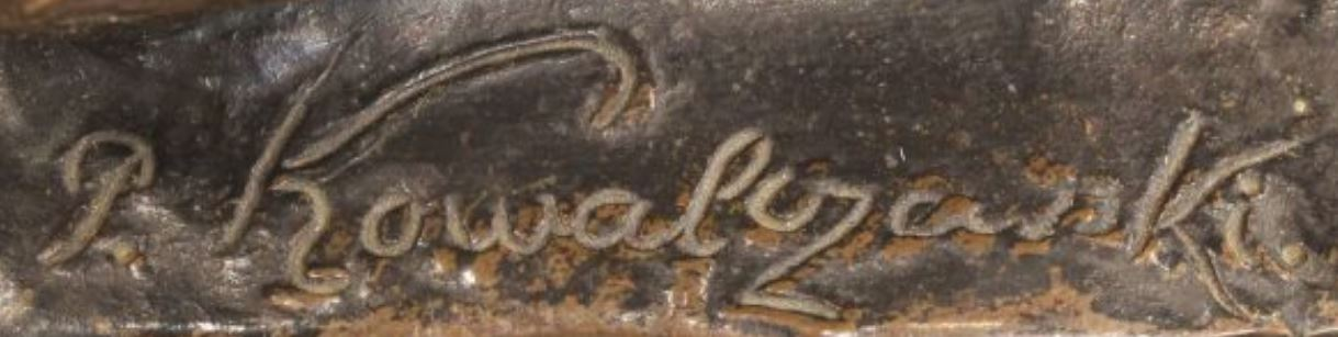 Paul Ludwig Kowalczewski's signature